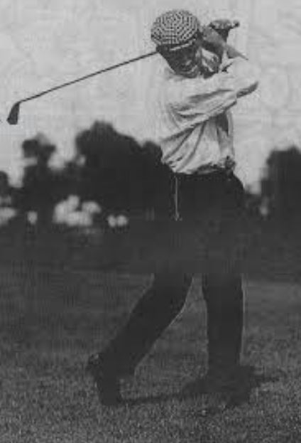 A circa 1899 photograph of golfer John Matthew Shippen.